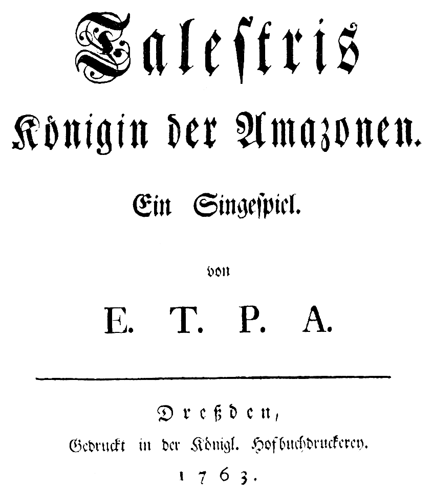 Maria Antonia Walpurgis - Talestri - german titlepage of the libretto - Dresden 1763